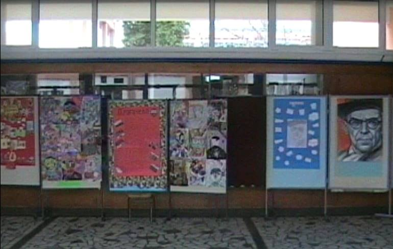 dgdggddg